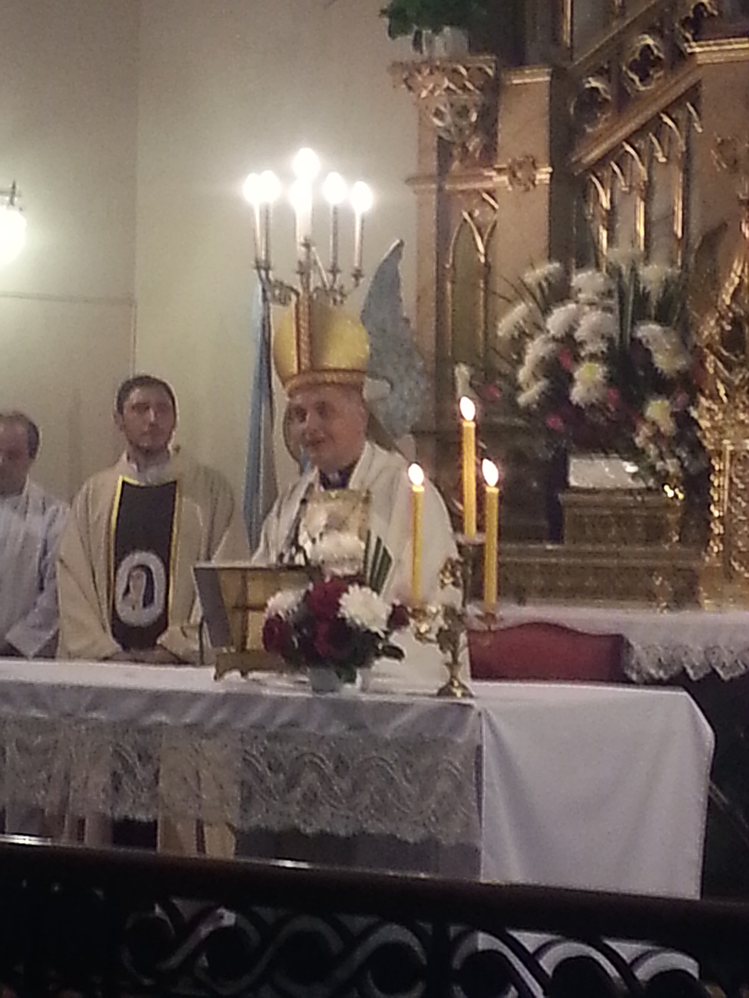 Ariel Edgardo Torrado Mosconi celebrates the eucharist at the Monastery of Saint Teresa of Jesus, Buenos Aires, Argentina.